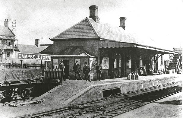 Campbelltown Railway Station Dated: No date Digital ID: 17420_a014_a0140001180 Rights: We'd love to hear from you if you use our photos. Many other photos in our collection are available to view and browse on our website using Photo Investigator.